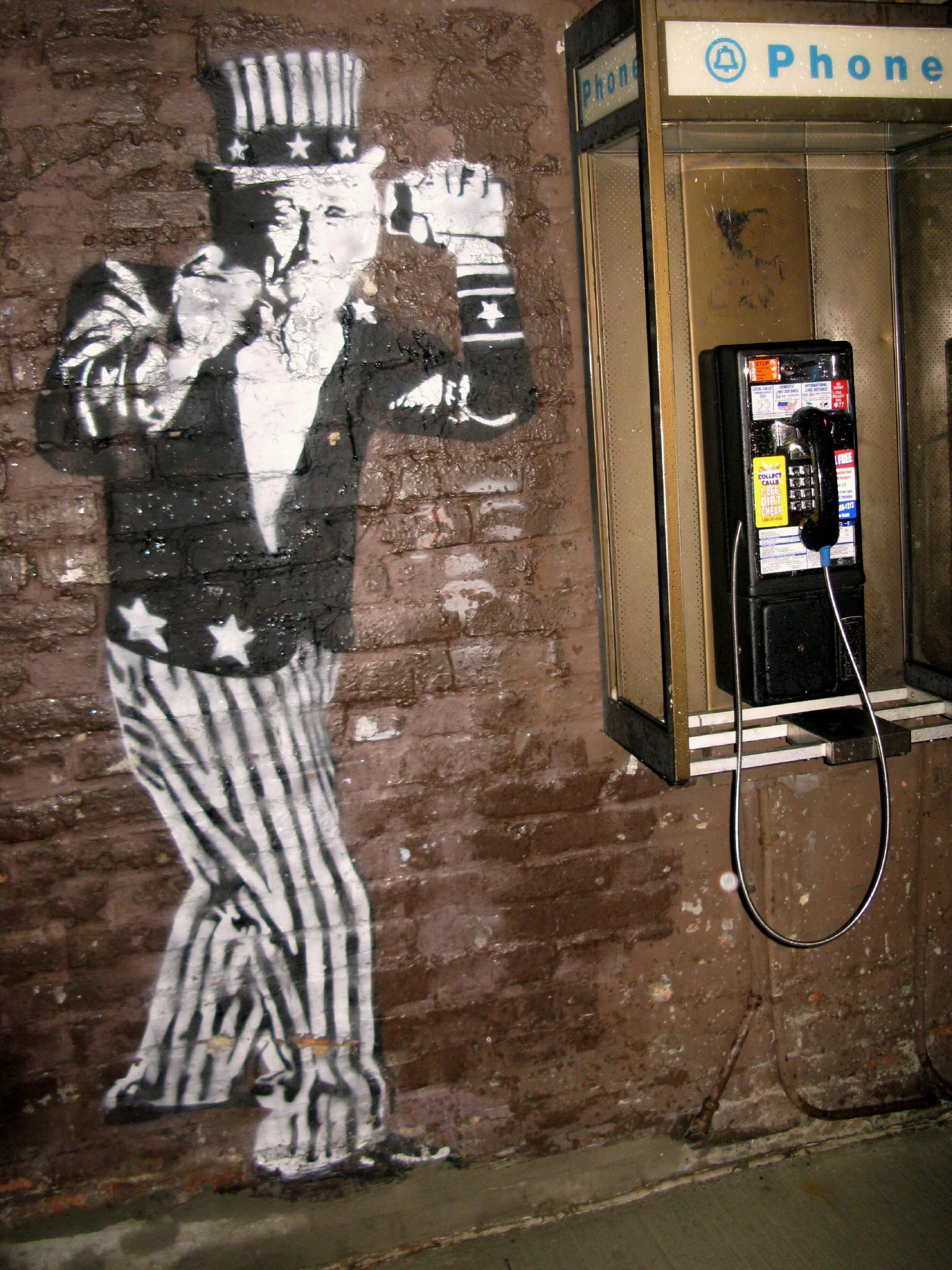 An elaborate graffiti in Columbus, Ohio, depicting nation-state surveillance.